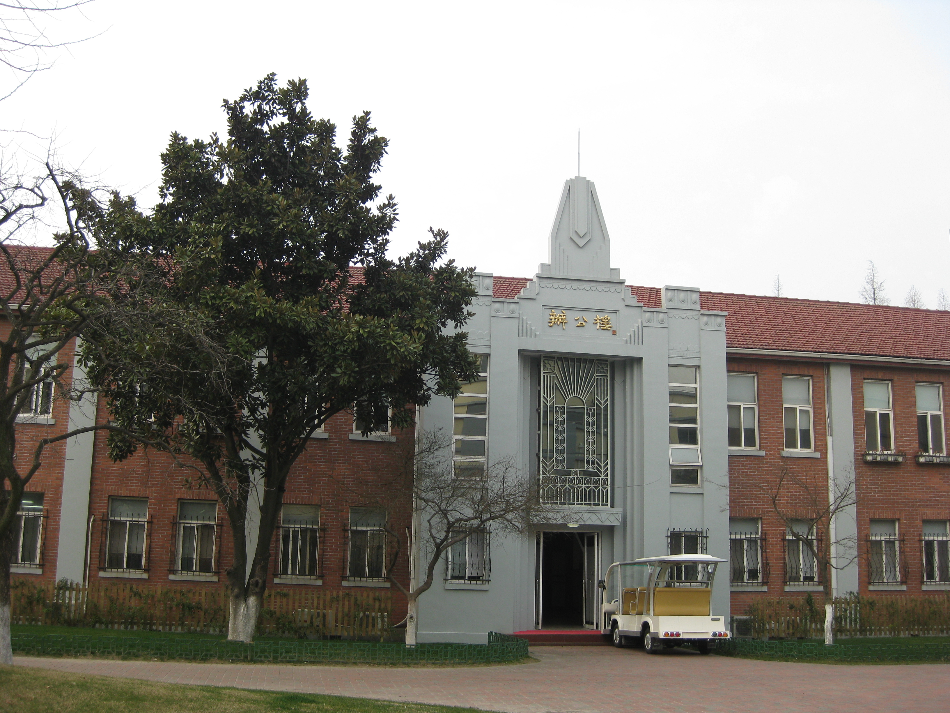 A picture of the SHSID principal's office.